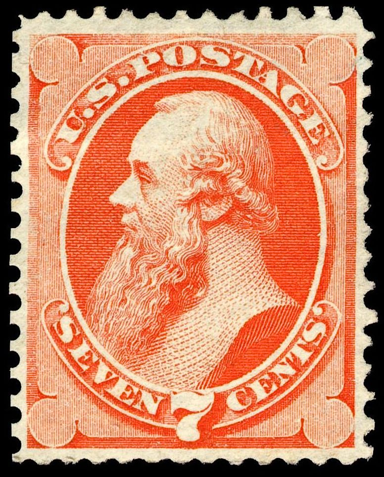 US Postage stamp, Edwin M. Stanton, issue of 1871, 7c This is the only US Postage stamp to depict Stanton (Lincoln's Secretary of War).